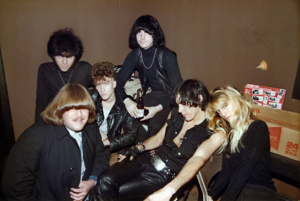 Fuzztones 1984 Irving Plaza backstage with Ognir, the MC. L to R: Ognir, Elan Portnoy, Ira Elliot, Michael Jay, Rudy Protrudi and Deb Onair